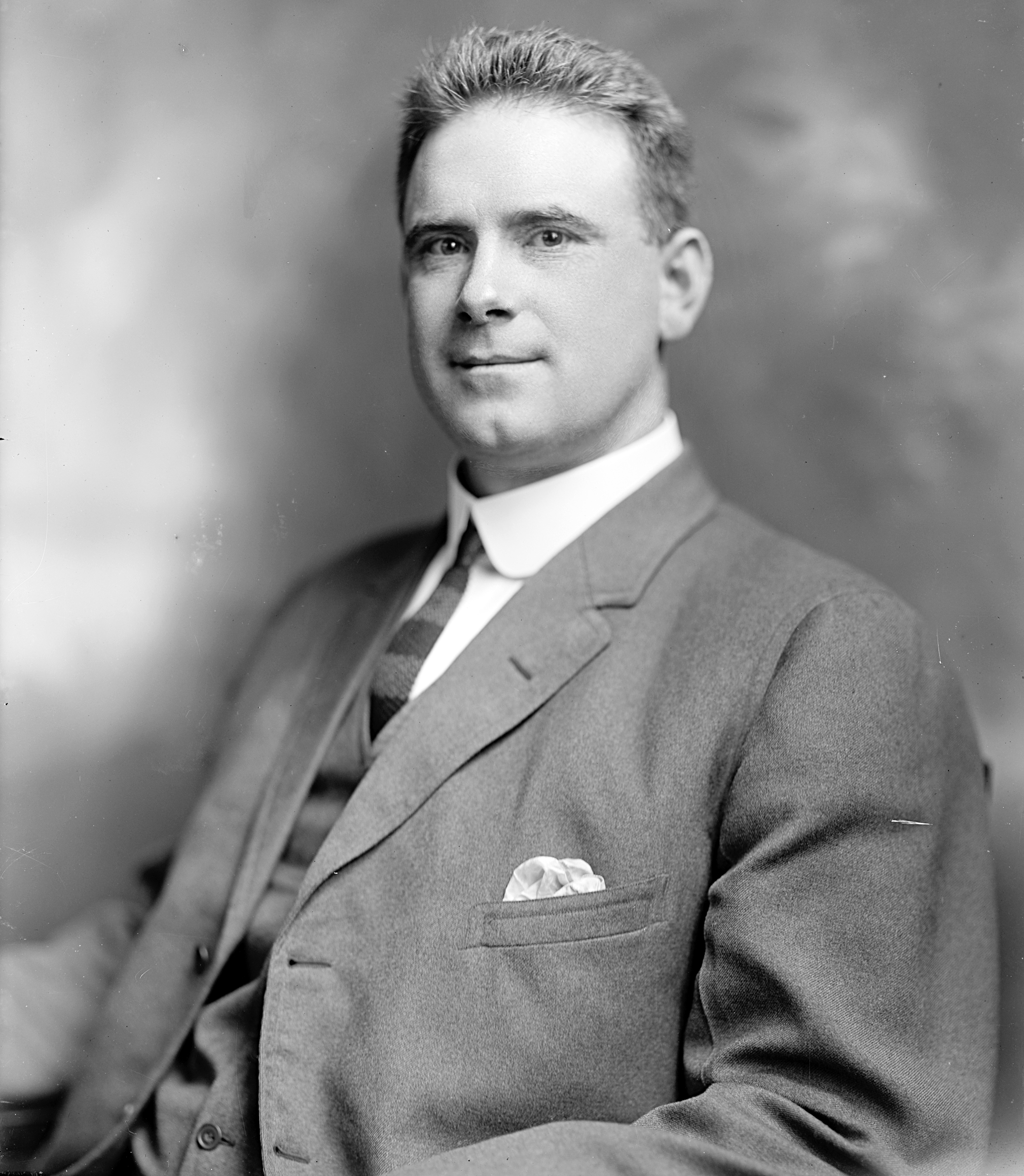 John J. Casey, US Representative from Pennsylvania